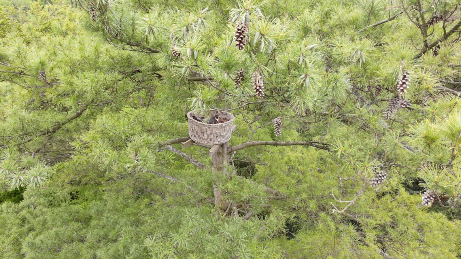 Breeding female peregrine falcon in a nest basket of the Arbeitsgemeinschaft Wanderfalkenschutz Nordrhein-Westfalen (Working group Peregrine Falcon Conservation North Rhine-Westphalia) in the County Paderborn.